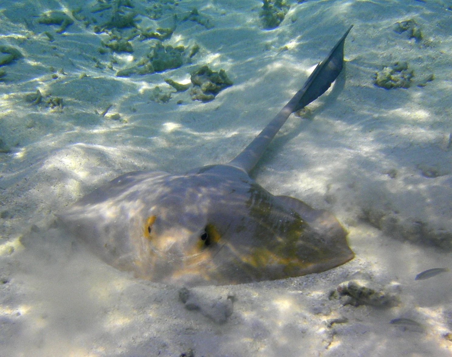 Feathertail stingray (Pastinachus sephen)